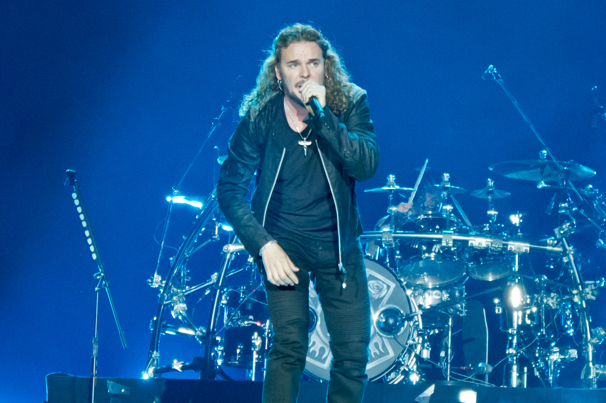 Maná in concert in Rock in Rio in Madrid in 2012.